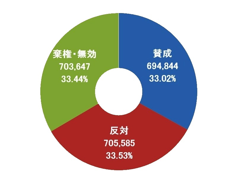 Result of referendum of "Osaka Metropolis plan"